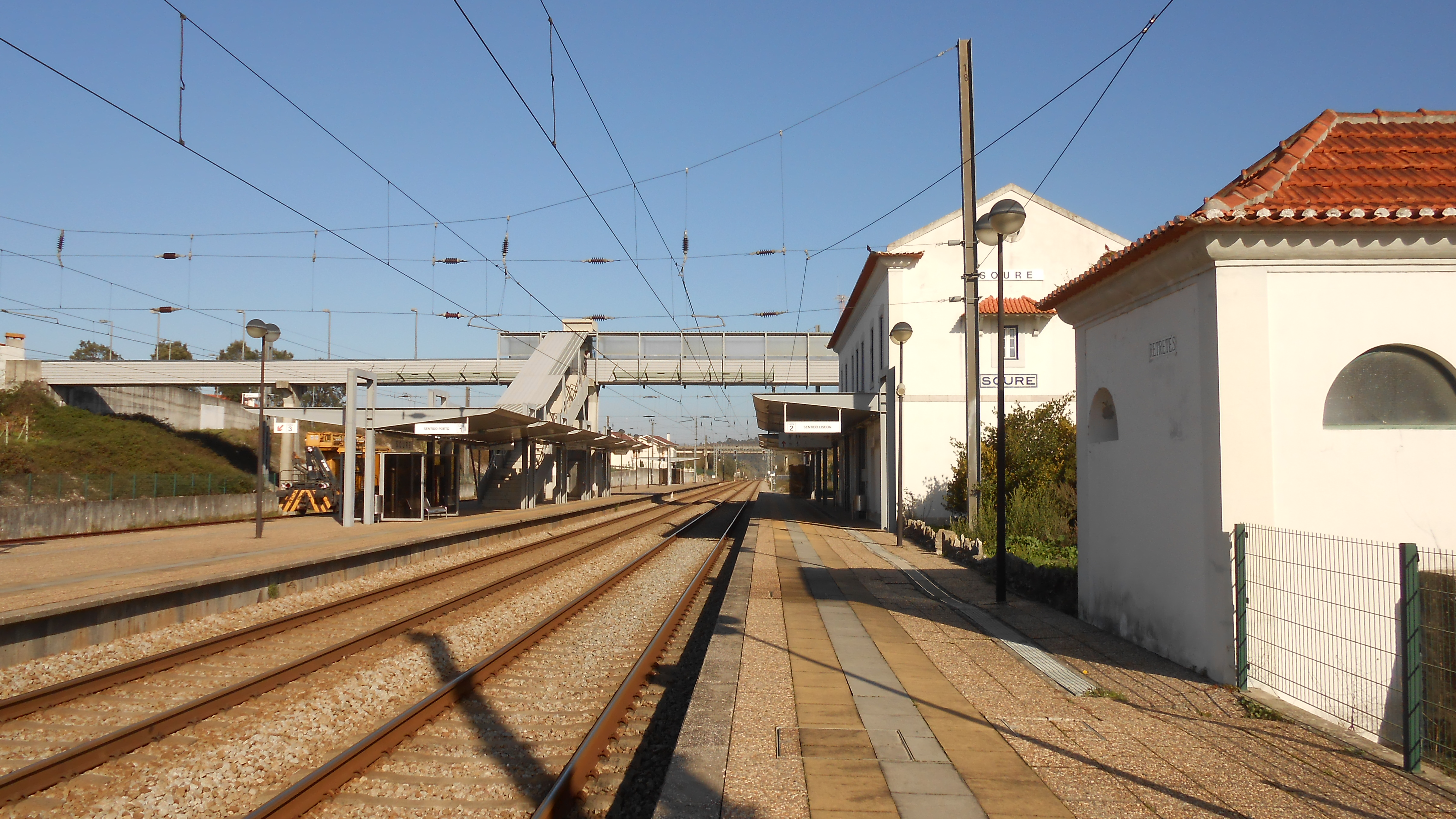 The Soure train station, nowerdays working as a halt only.